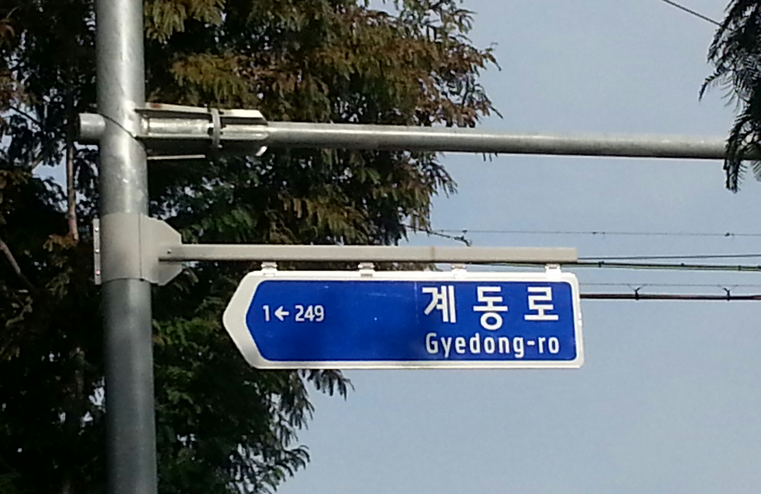 Road Name Address Sign in South Korea. Gyedong-ro, Gimhae, South Korea